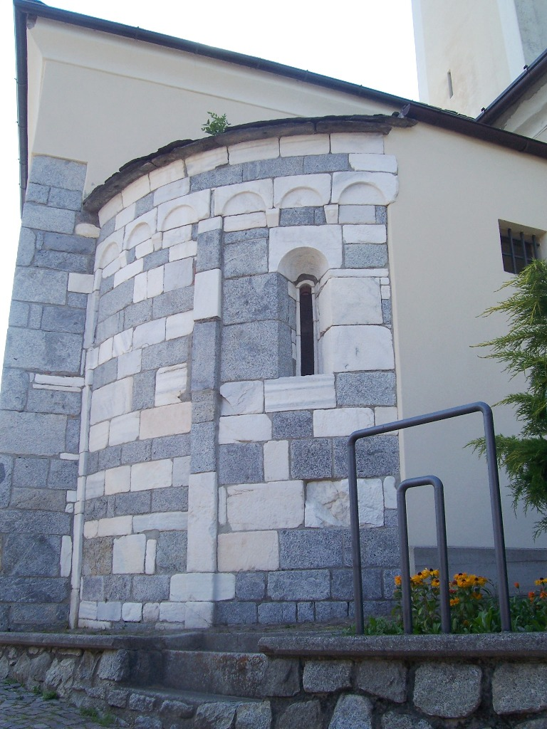 Romanic apse of church of S Remigio. Vione, Val Camonica, Italy.